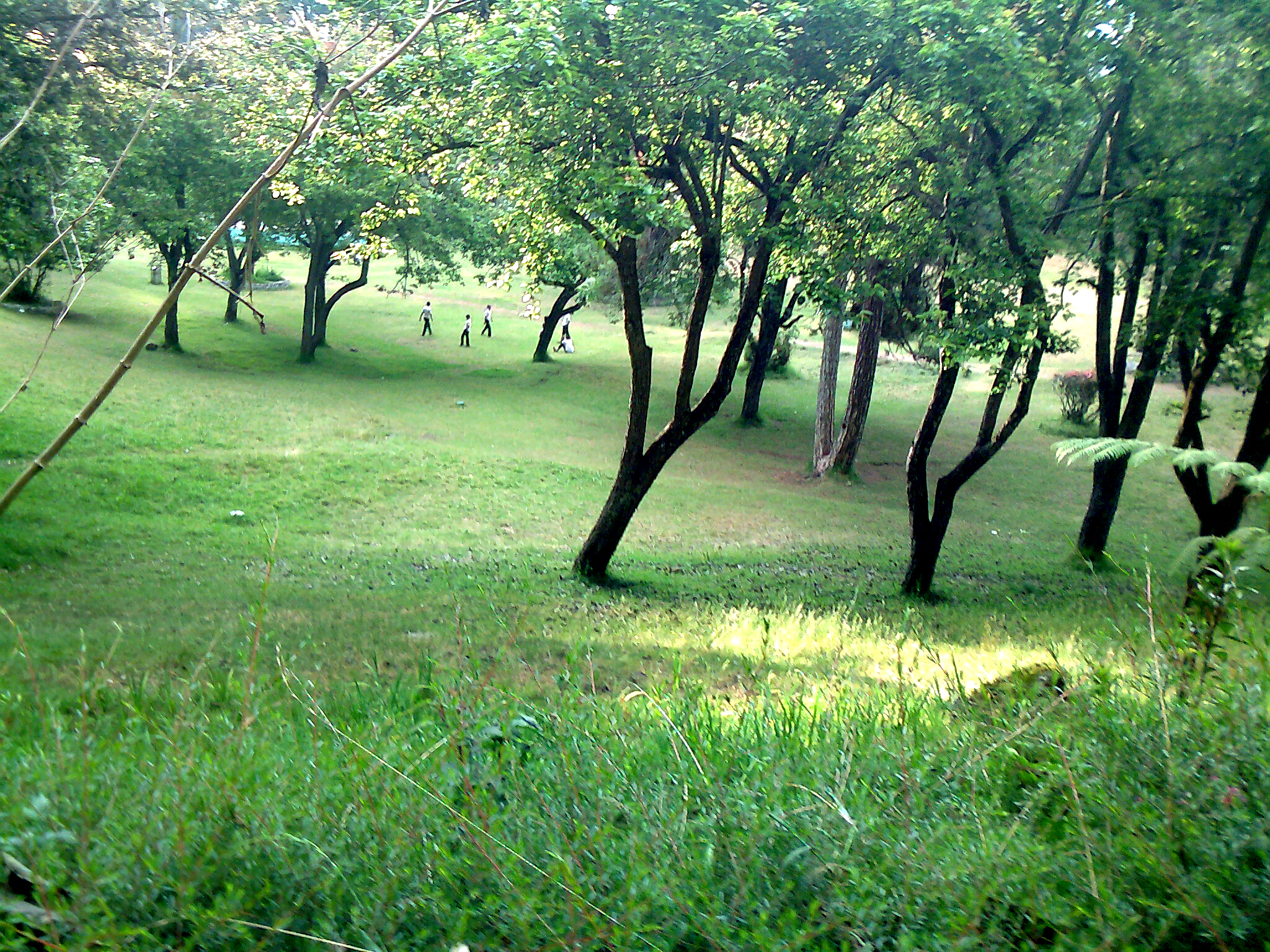 Just east of the lake and 500 metres (1,600 ft) from the bus stand, is a wonderfully maintained 20.5 acres (8.3 ha) botanical garden. The park was planned and built in 1908 by a forest officer from Madurai, H.D.Bryant, and named after him.